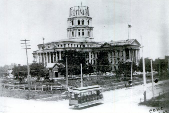 Statehouse ca1889, Topeka, Kansas, USA